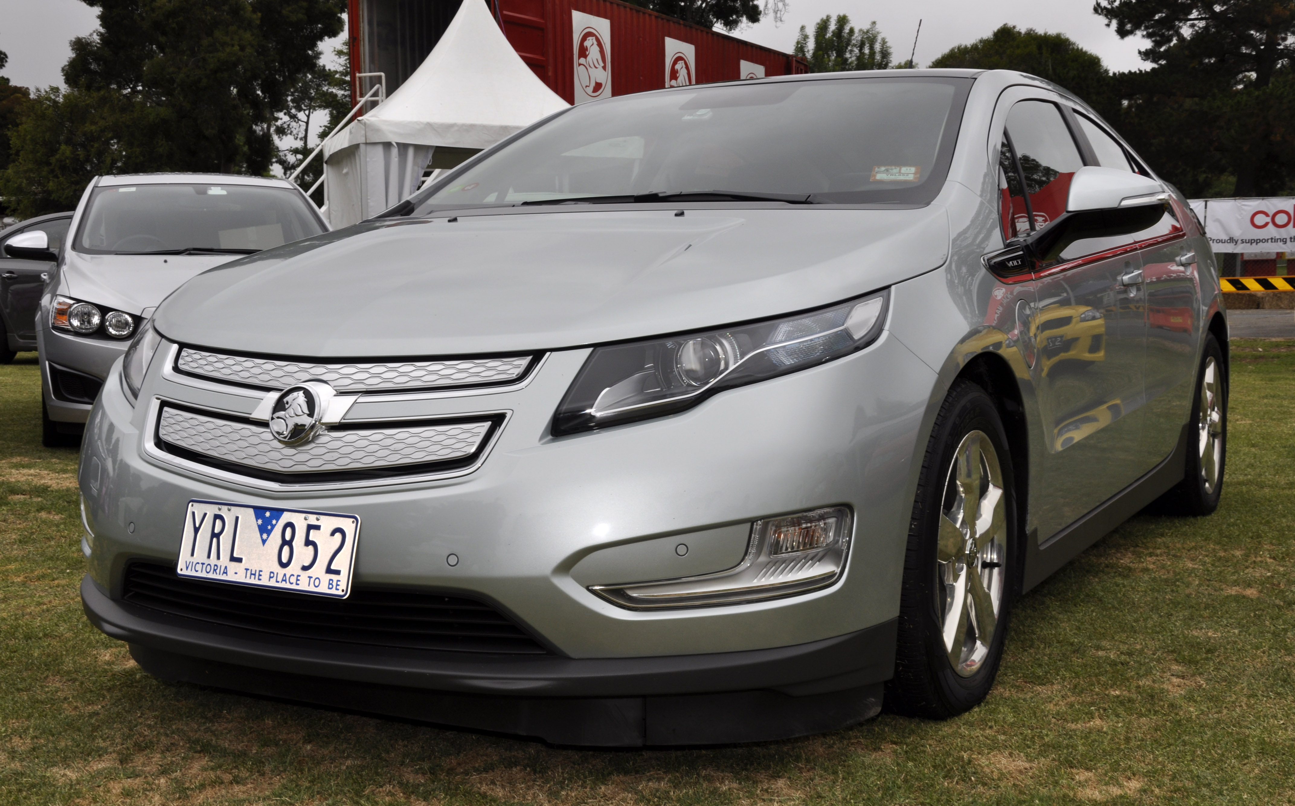 Holden-Volt-RACV-Energy-Breakthrough-11